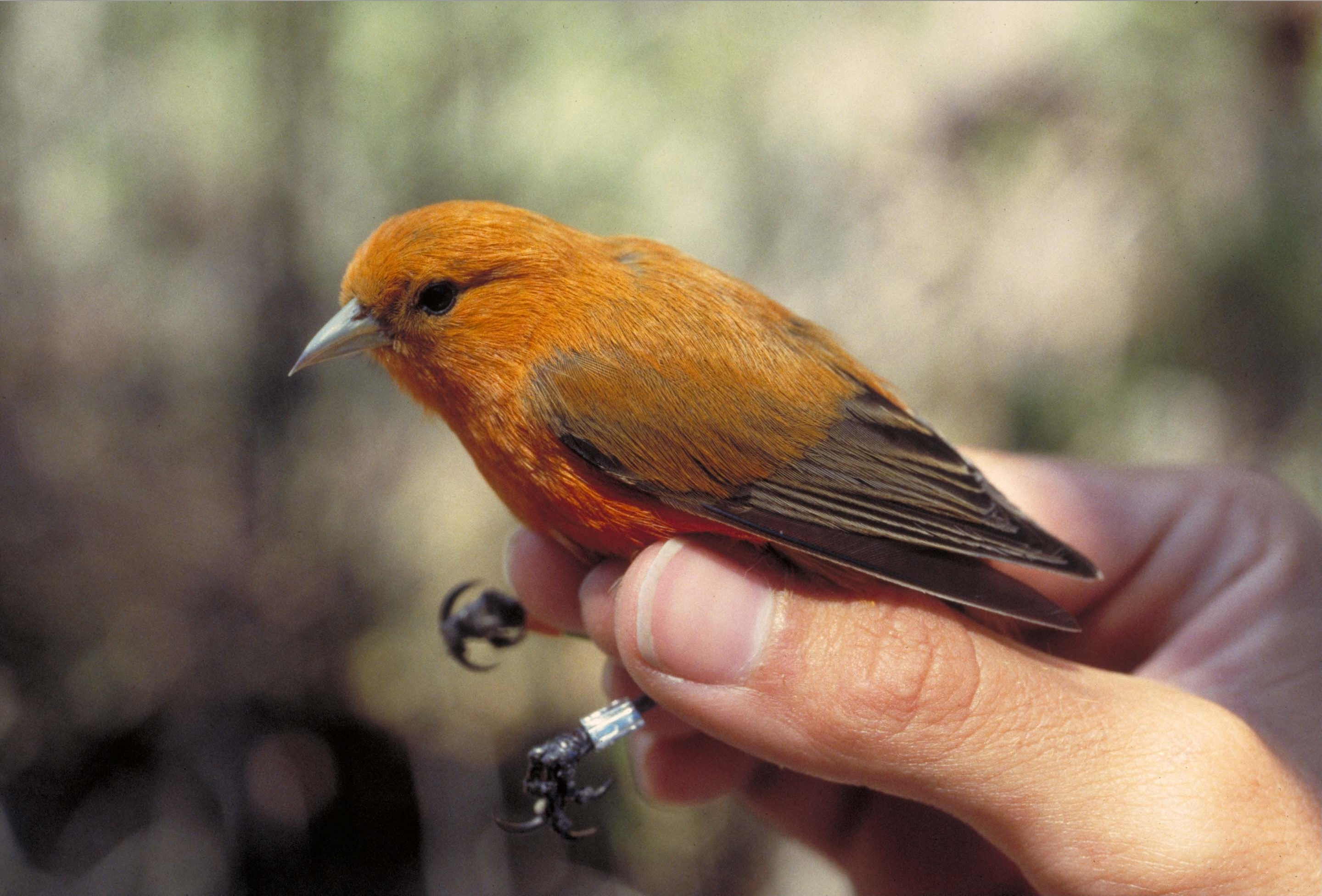 A male 'Akepa (Loxops coccineus), Kulani Forest, Hawaii, USA. 1992.